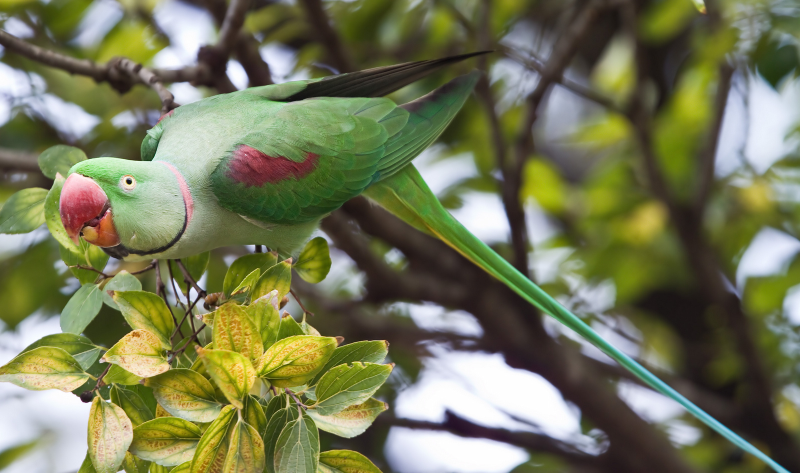 An male Alexandrine Parakeet (also known as Alexandrian Parrot) in a tree.